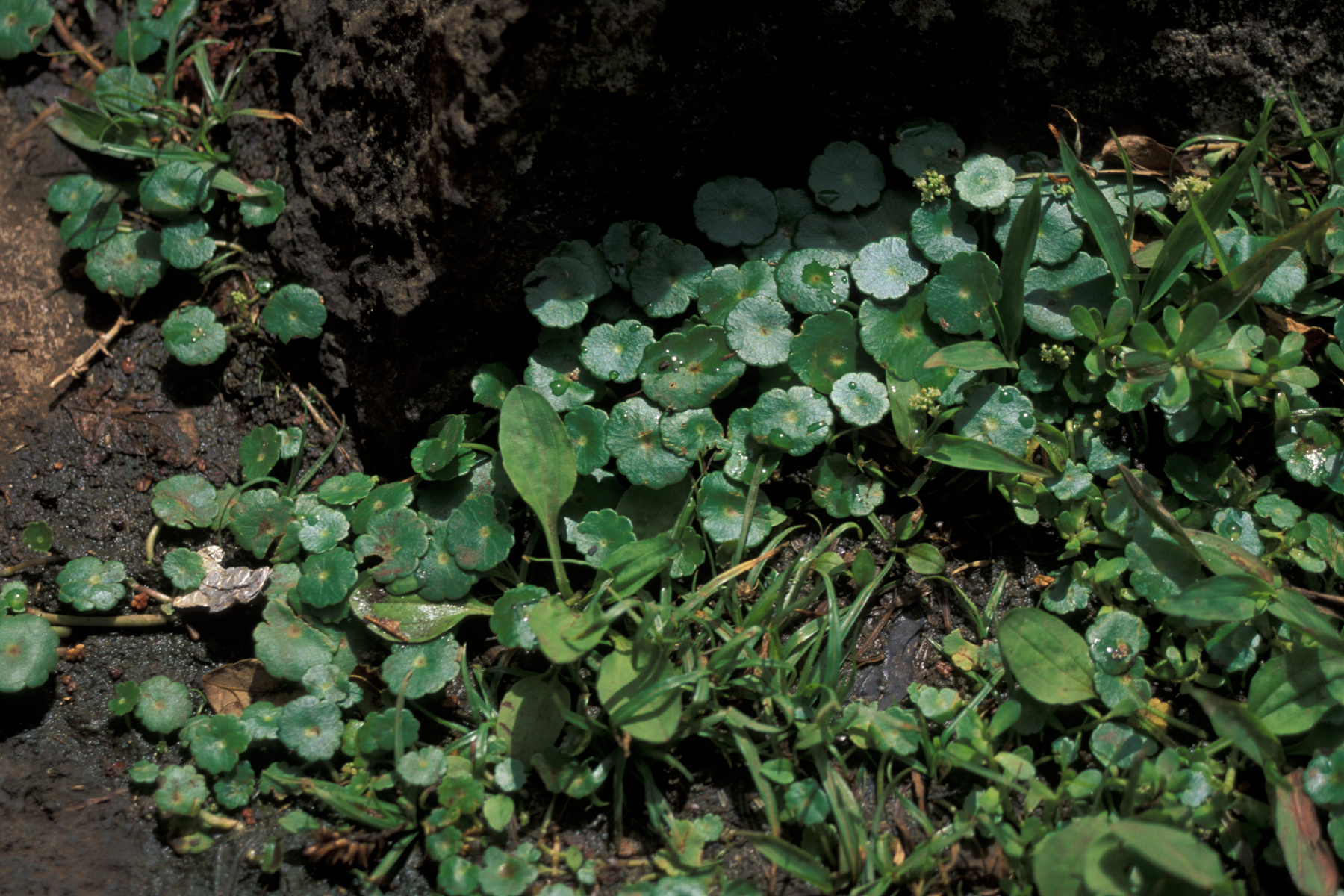 Hydrocotyle verticillata (habit). Location: Maui, Kepaniwai